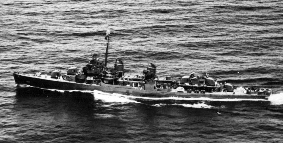 The U.S. Navy destroyer USS Ingersoll (DD-652) en route to a strike on Taroa Island airfield, Marshall Islands, viewed from a plane from USS Enterprise (CV-6), 27 January 1944.